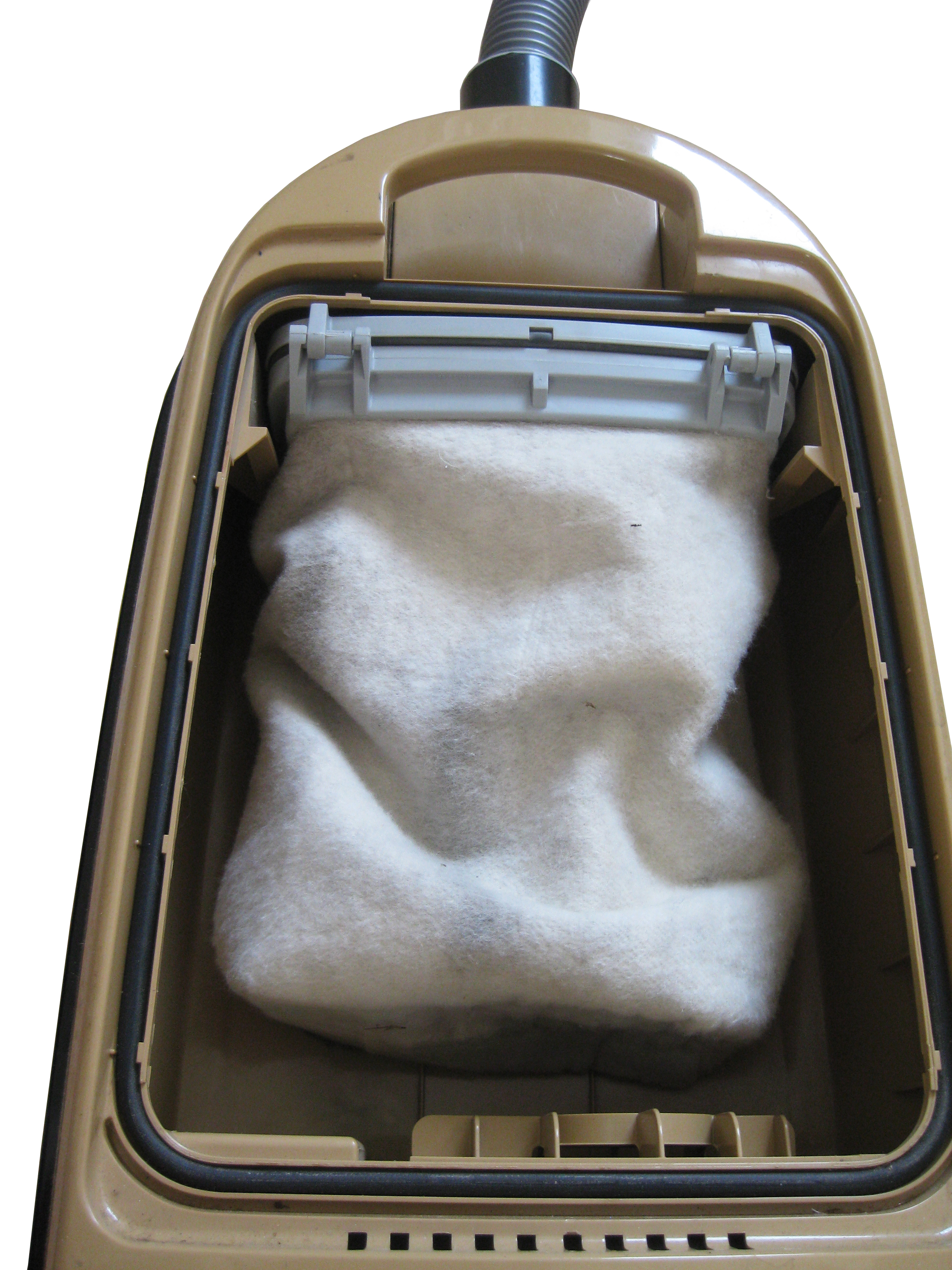 Vacuum cleaners bag in an old Siemens vacuum cleaner.